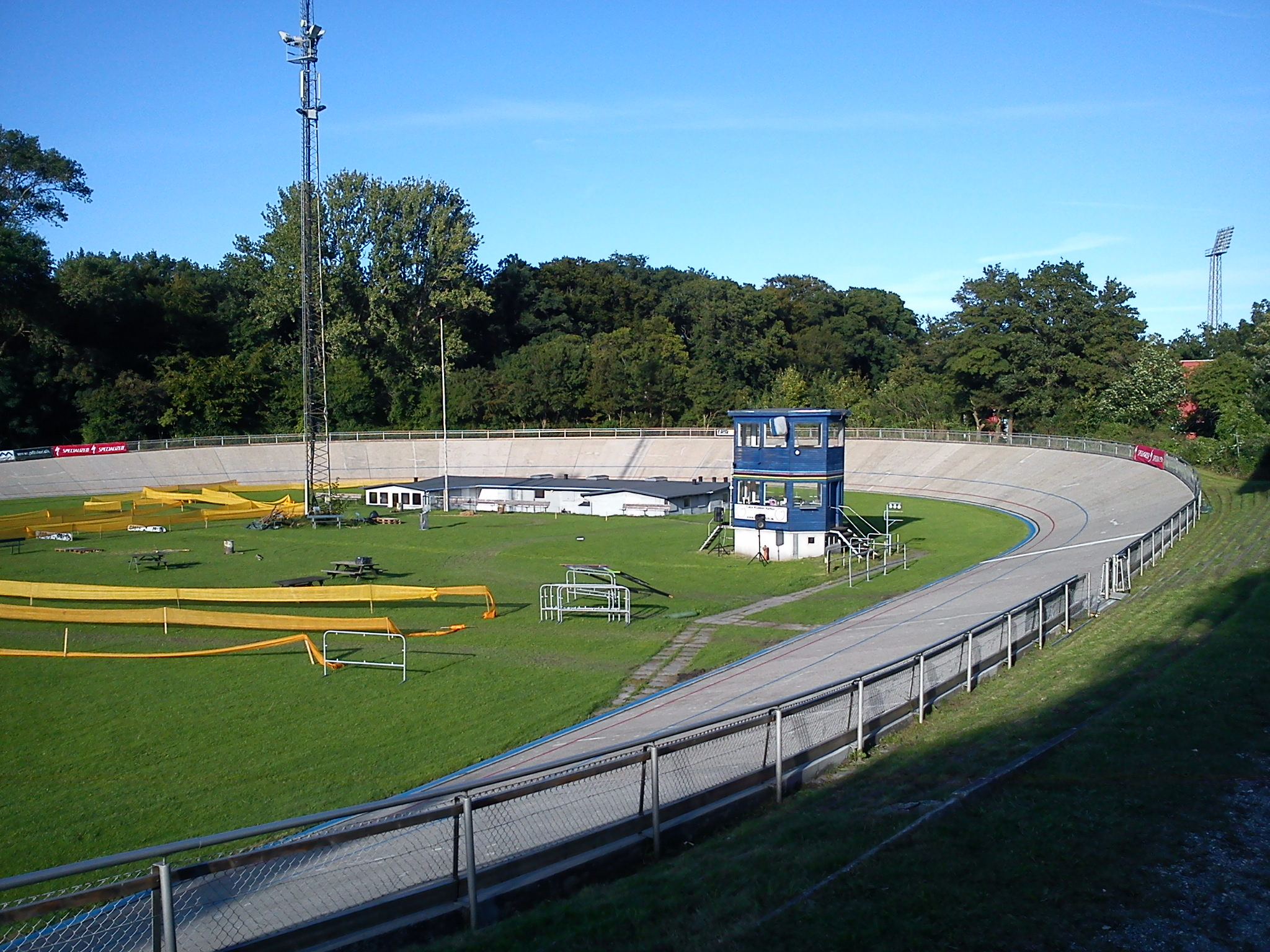 Aarhus Cyklebane